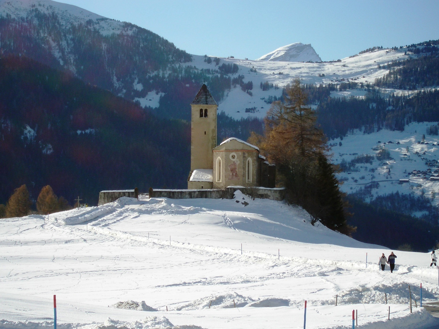 St. Mary's church in Lantsch/Lenz GR, Switzerland self made, January 2006